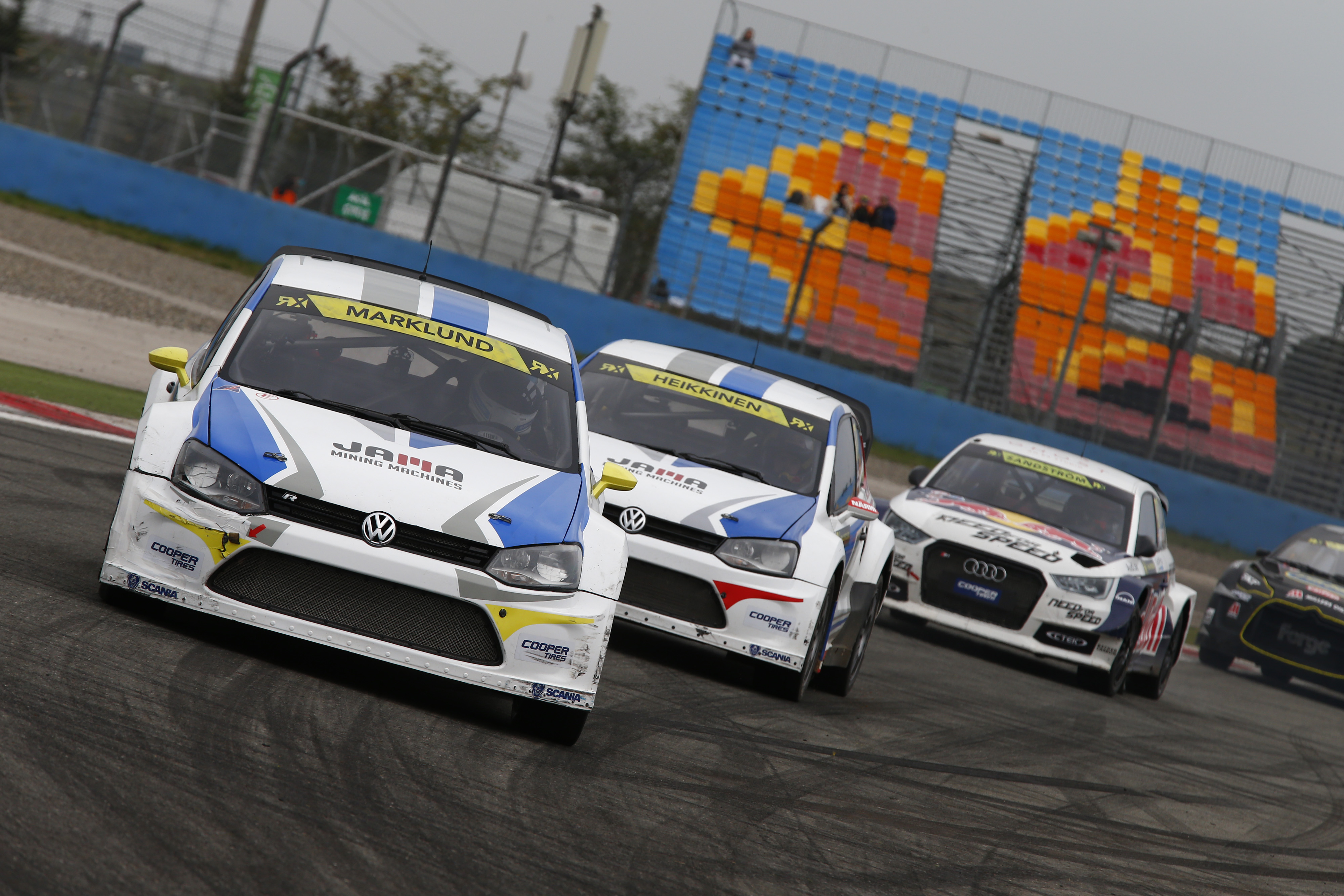 Anton Marklund leads teammate Toomas Heikkinen, with Edward Sandström in third place. Round 11 of the 2014 FIA World Rallycross Championship at Istanbul Park.